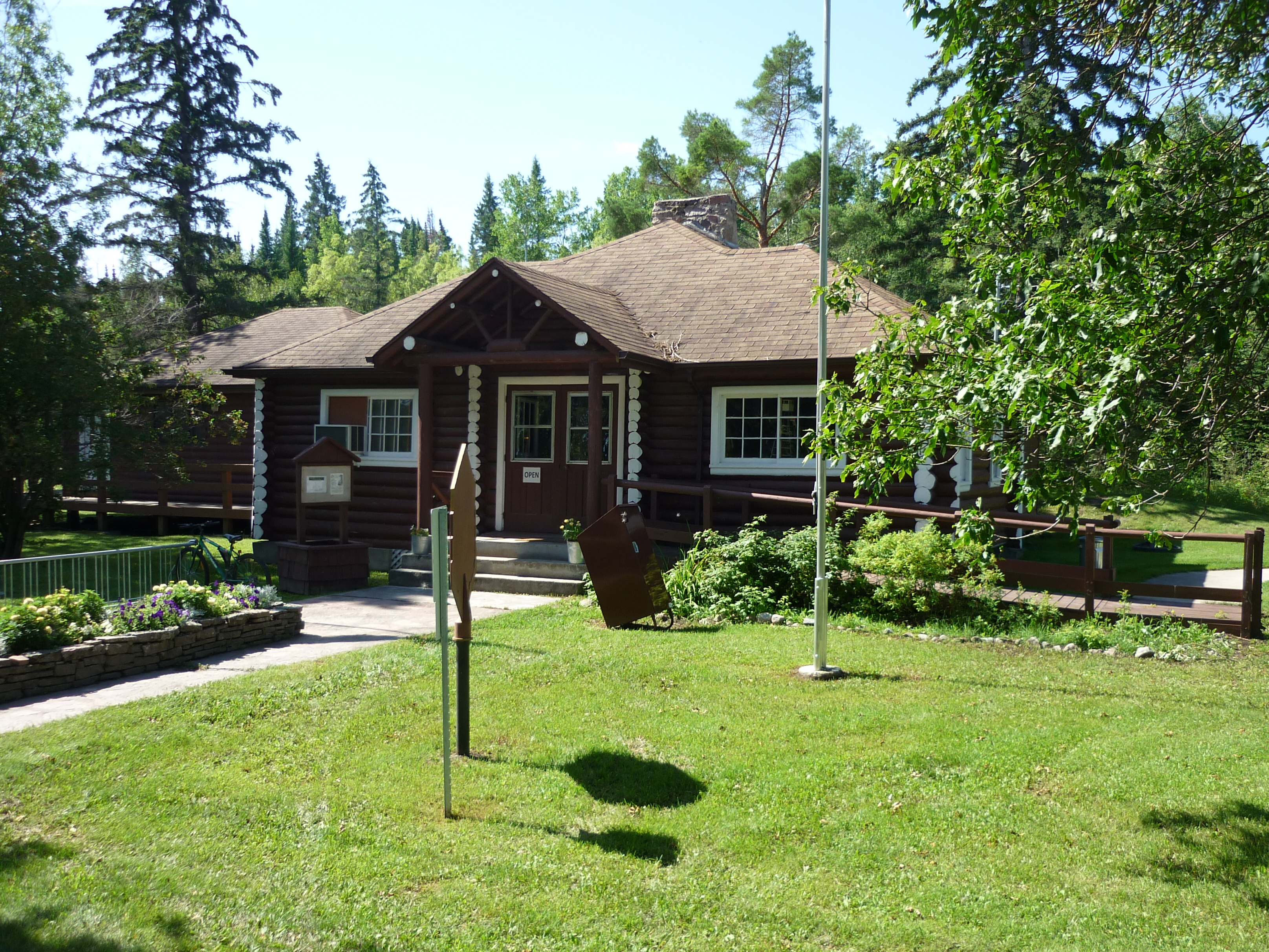 The exterior of the Whiteshell Natural History Museum at Nutimik Lake in Whiteshell Provincial Park in Summer 2012